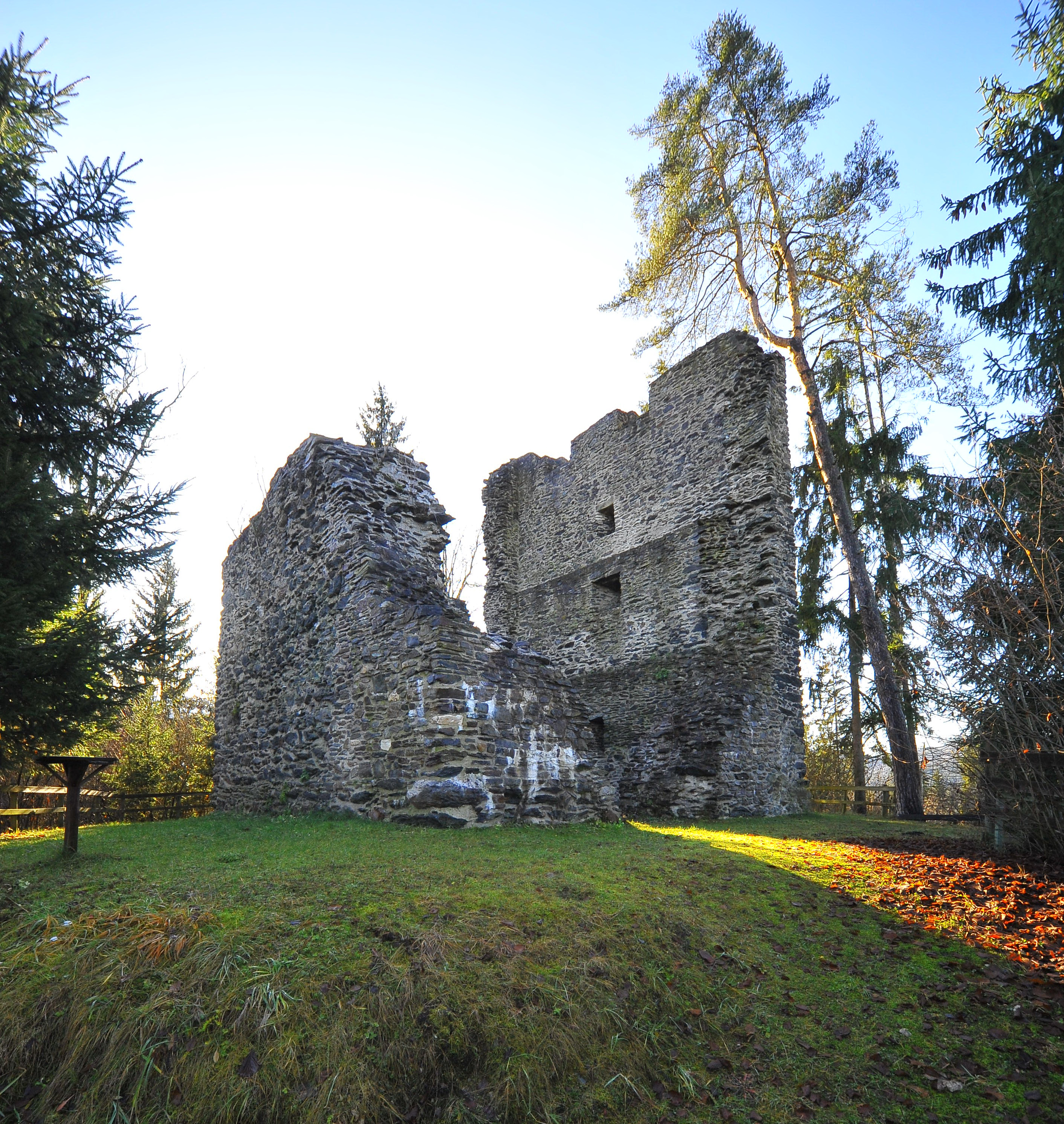 Donjon of the castle ruin Arnulfsfeste in the municipality Moosburg, district Klagenfurt Land, Carinthia, Austria